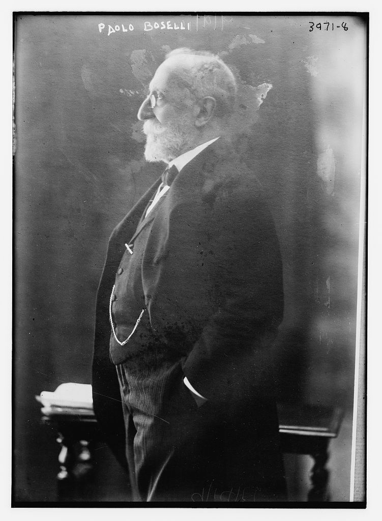 Bain News Service,, publisher. Paolo Boselli [between ca. 1915 and ca. 1920] 1 negative : glass ; 5 x 7 in. or smaller. Notes: Title from unverified data provided by the Bain News Service on the negatives or caption cards. Forms part of: George Grantham Bain Collection (Library of Congress). Format: Glass negatives. Repository: Library of Congress, Prints and Photographs Division, Washington, D.C. 20540 USA, General information about the Bain Collection is available at Higher resolution image is available (Persistent URL): Call Number: LC-B2- 3971-8